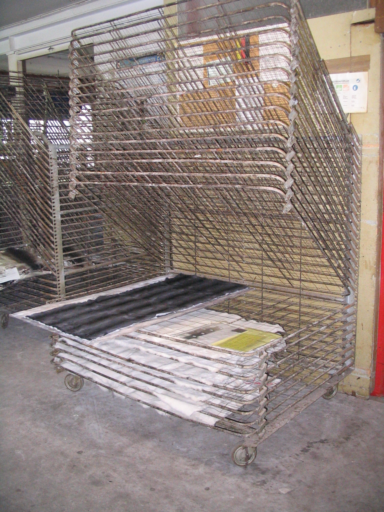 At the fur dressers